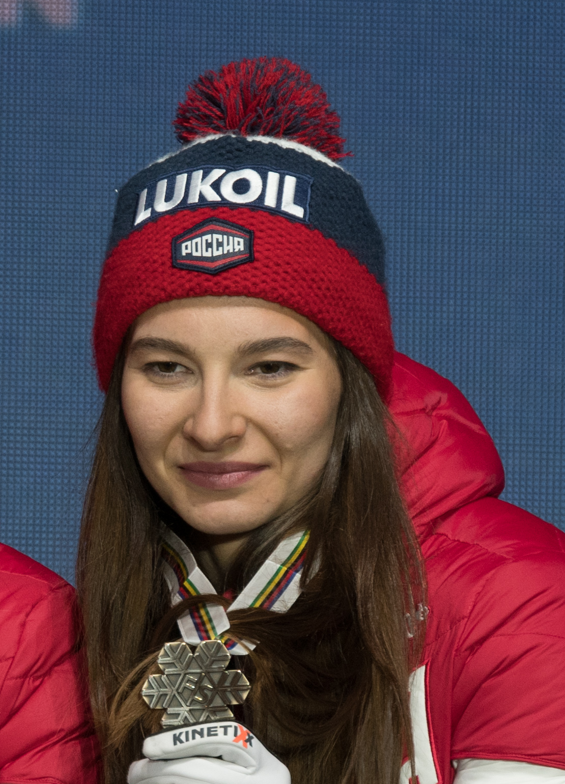 FIS Nordic Wolrd Ski Championships Seefeld 2019 - Medal Ceremony at the Medal Plaza. Picture shows Natalya Nepryayeva (RUS).